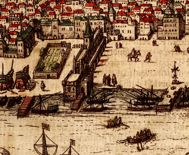 View of the Ribeira Palace in Lisbon, Portugal.